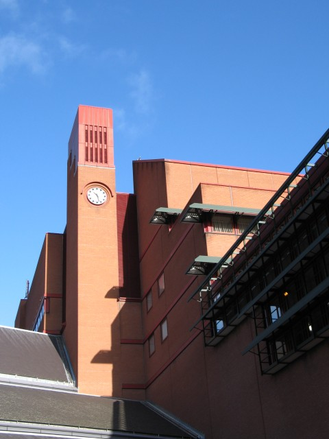 The British Library, London. The British Library (BL) is the UK's national library and one of the world's largest research libraries, holding over 150 million items in all known languages and formats; books, journals, newspapers, magazines, sound and music recordings, patents, databases, maps, stamps, prints, drawings and much more. The BL's collections include around 25 million books, along with substantial additional collection of manuscripts and historical items dating back as far as 300 BC. See also . . . . 1599080; 1599109; 1599113; 1599116; 1599118; 1599122; 1599124; 1599132; 1599135; 1599137; 1599139; 1599140; 1599142; 1599144; 1599147; 1599148; 1599150